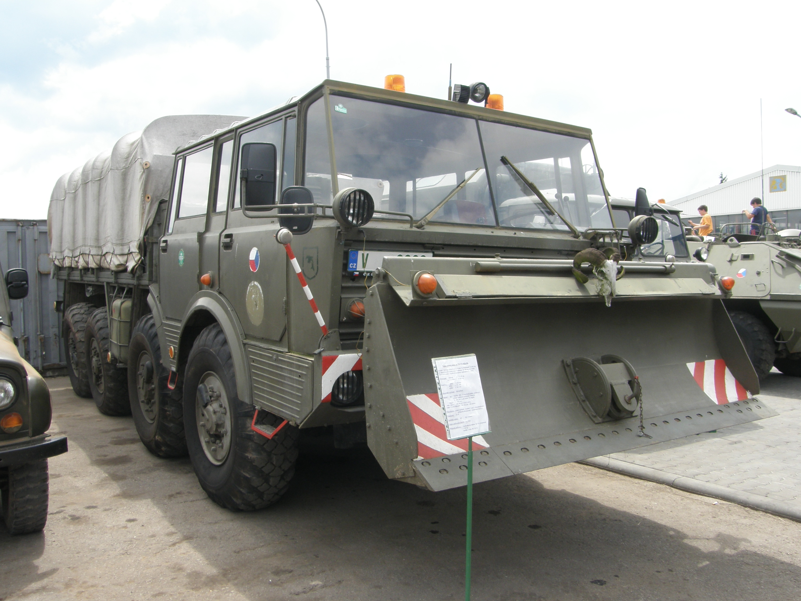 Tatra T813 KOLOS with optional dozer blade